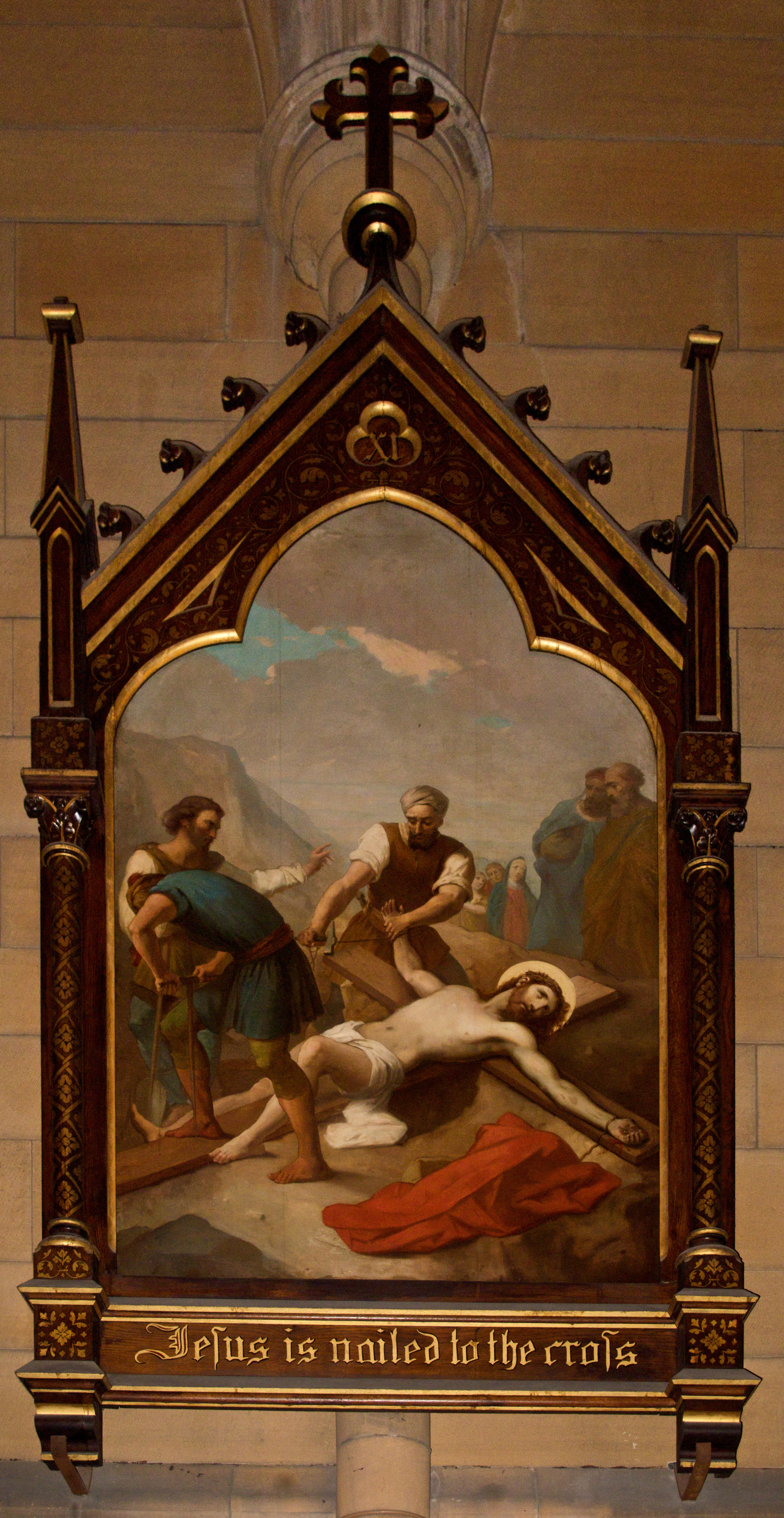 One of 14 paintings depicting the stages of Jesus' crucifixion at St. Mary's Cathedral, Sydney.